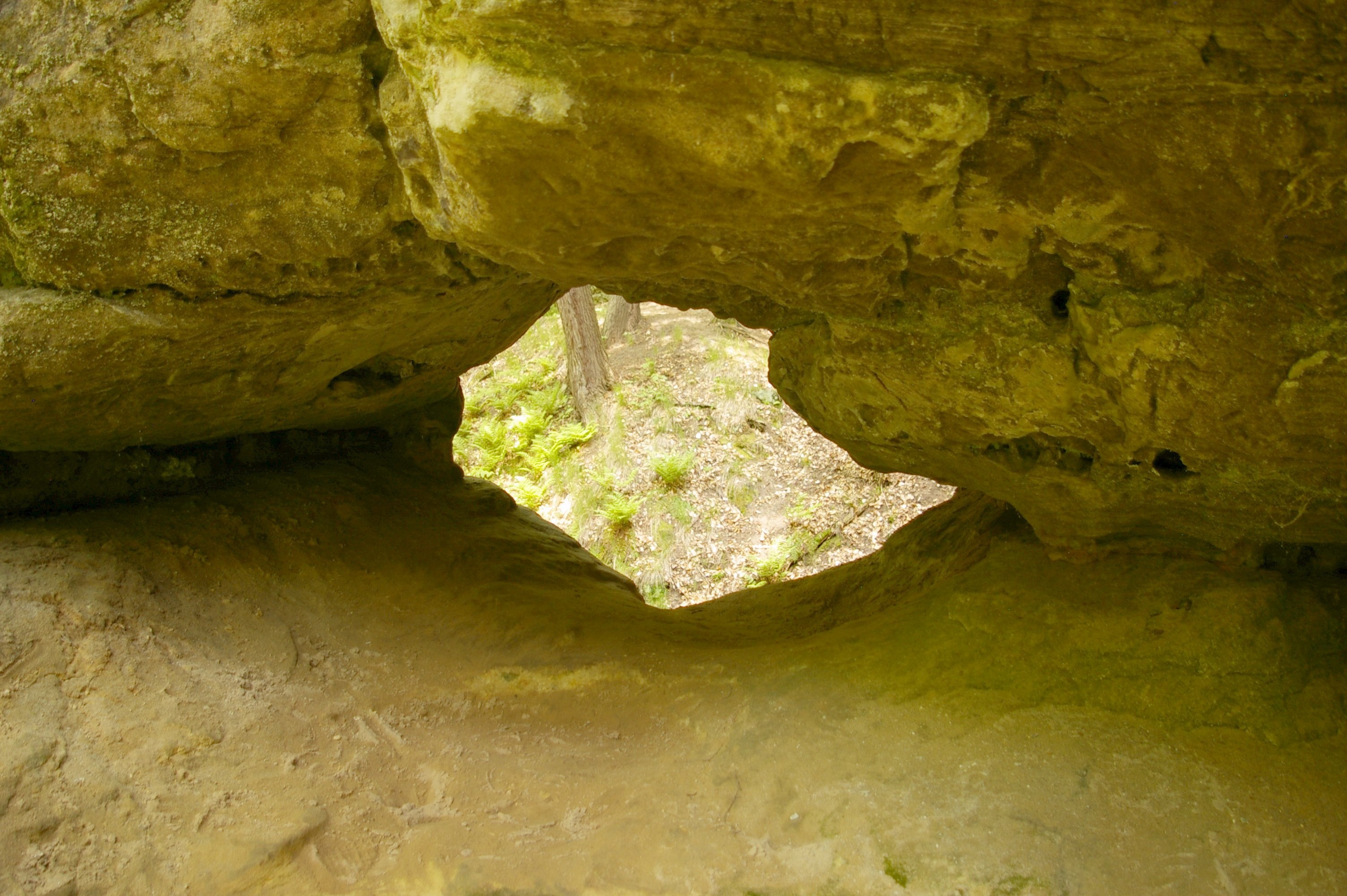 Natural Arch between the two gorges containing Memorial Falls near Munising Mi.